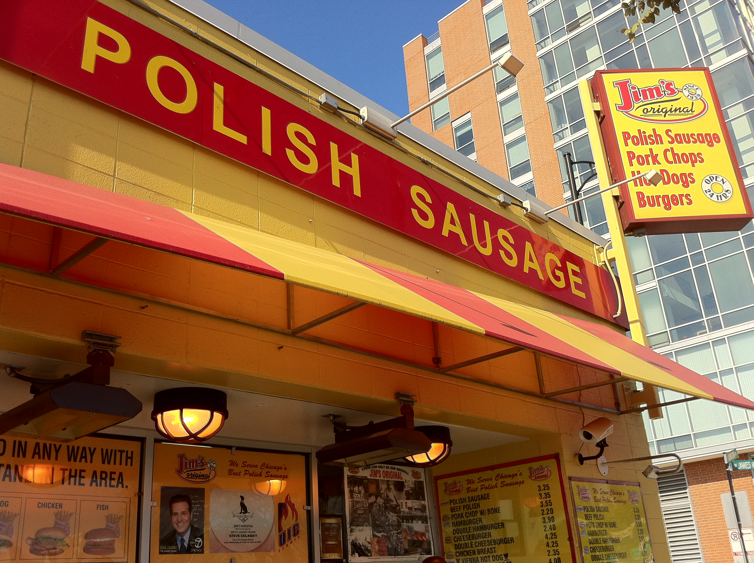 the polish stand Jims Original on Maxwell Street in Chicago, 2010